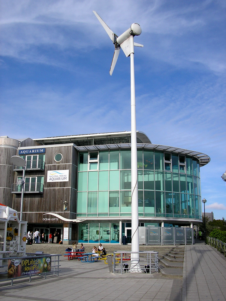 The National Marine Aquarium in Plymouth, Devon.